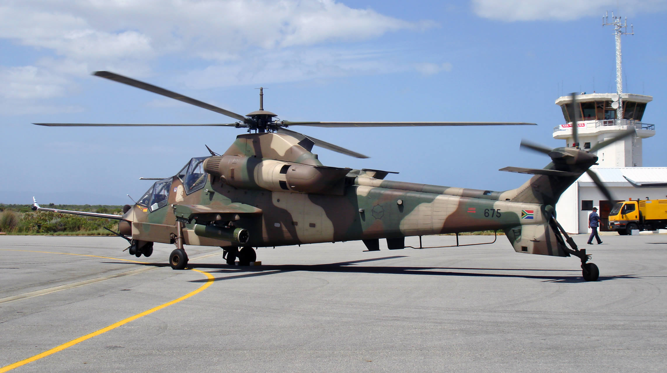 "The Rooivalk is a 3rd generation attack helicopter from Denel Aviation, South Africa. It is designed around a fully-integrated digital management system. The cockpits are in stepped tandem configuration. The Weapons Systems Officer (WSO) is seated in the front cockpit and the pilot is seated in the cockpit above and behind the WSO. The cockpits, which are fitted with crashworthy seats and are armour-protected, are equipped with hands on collective and stick (HOCAS) controls. The Rooivalk has a crash-resistant structure and is designed for stealth with low radar, visua, infrared and acoustic signatures. The Rooivalk carries a comprehensive range of weaponry selected for the mission requirement, ranging from anti-armour and anti-helicopter missions to ground suppression and ferry missions. The aircraft can engage multiple targets at short and long range, utilising the nose-mounted cannon and a range of underwing-mounted munitions." More information about the Denel AH-2 Rooivalk